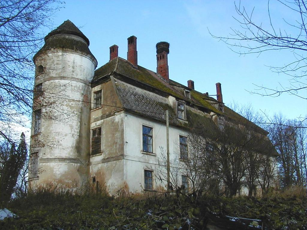 Vormsāte (Gross-Wormsahten) Manor, Latvia